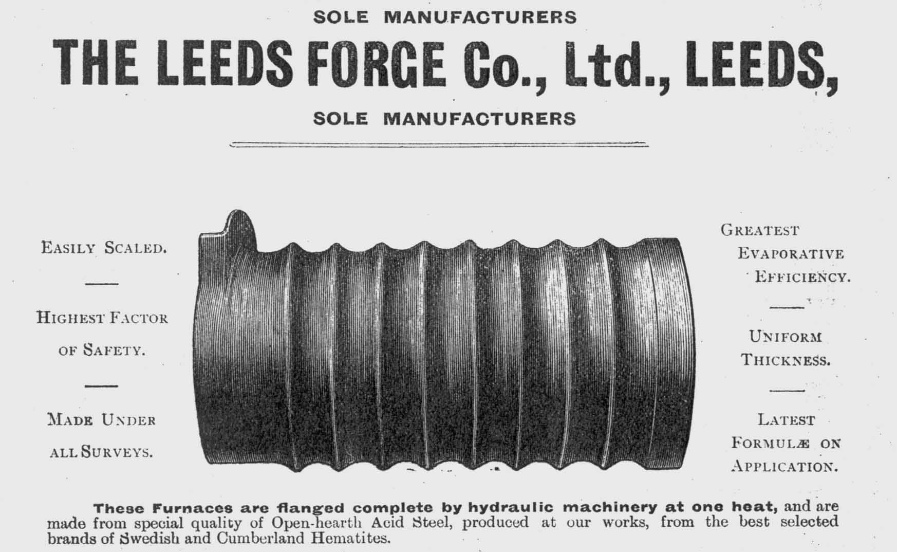 Scanned image of advertisement